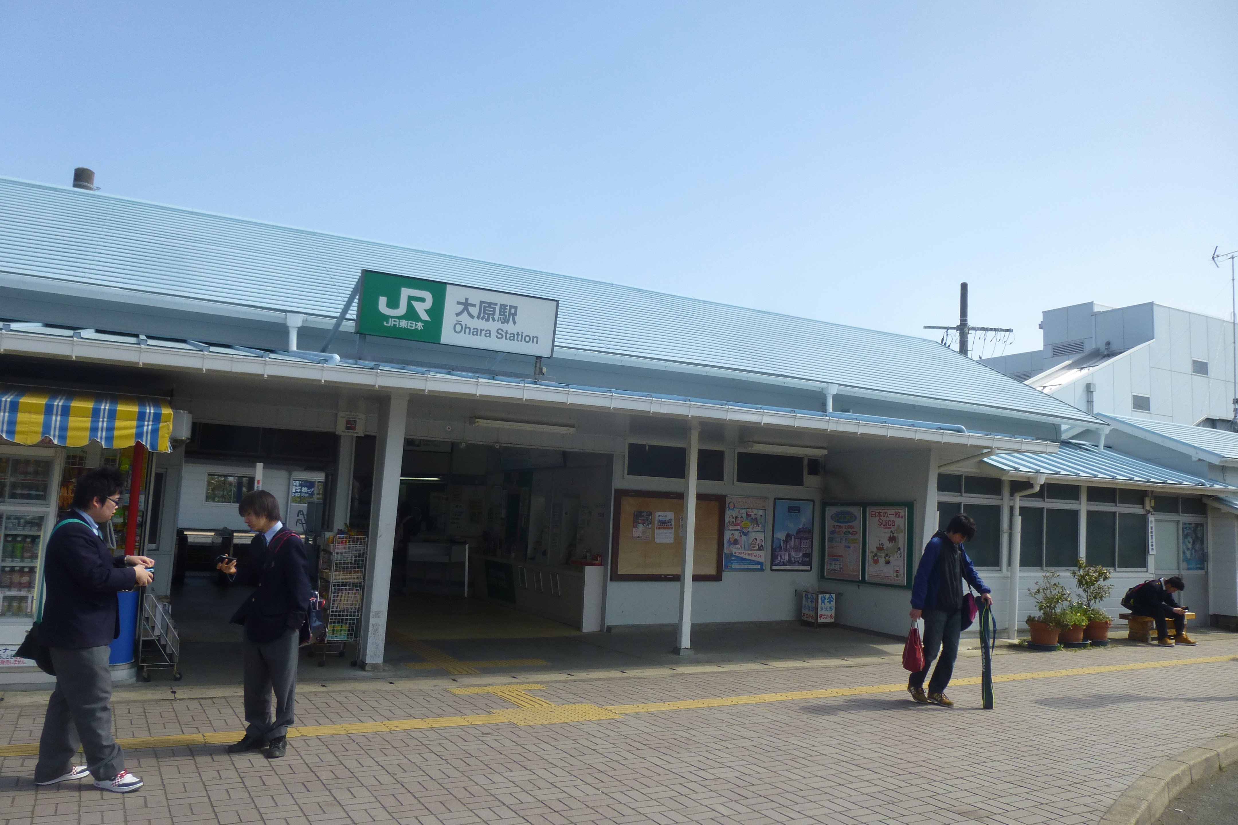 The JR East entrance to Ohara Station on the Sotobo Line in Chiba Prefecture, Japan